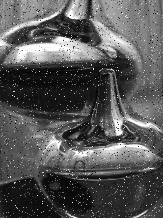 Summary Author: Marko Meza